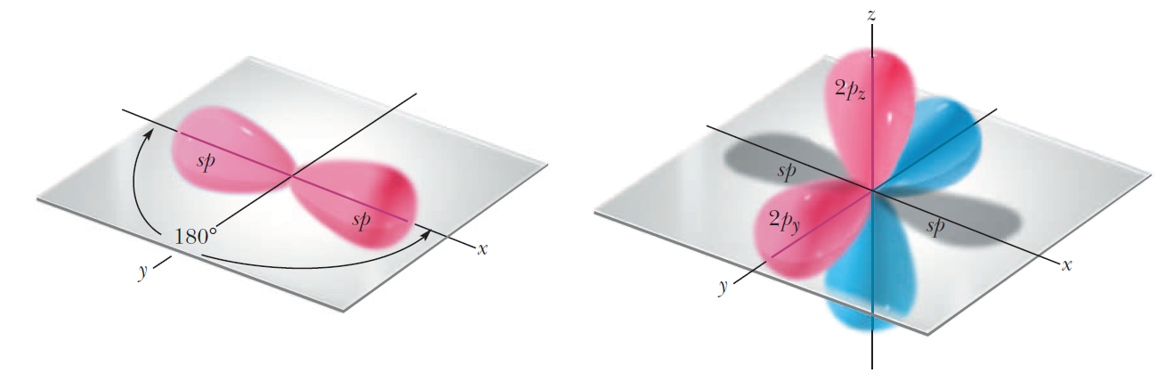 sp ஒழுக்குக் கலப்பு